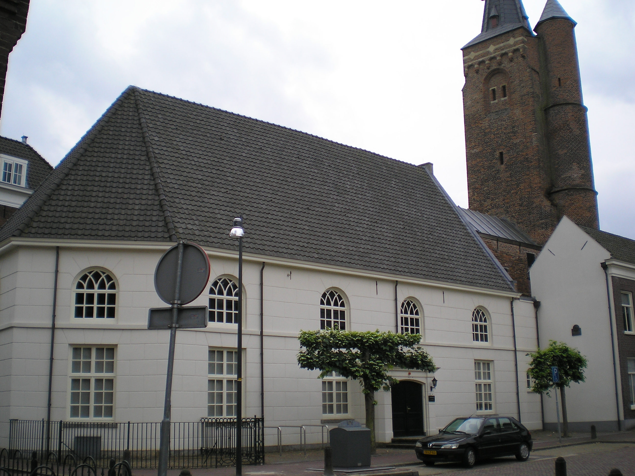 Gasthuiskapel the Gasthuisstraat 34 in Zaltbommel in the Netherlands